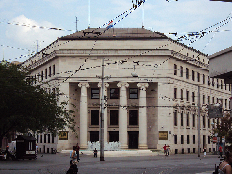 Building of the Croatian National Bank in Zagreb, facing east, in front of the main facade/entrance